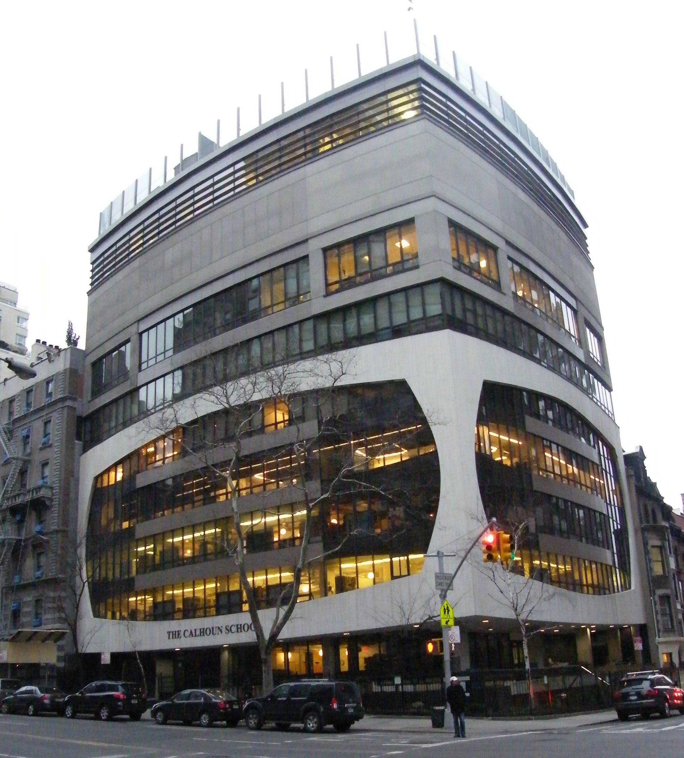 Calhoun School (PS09) on Upper West Side in New York City on National Register of Historic Places